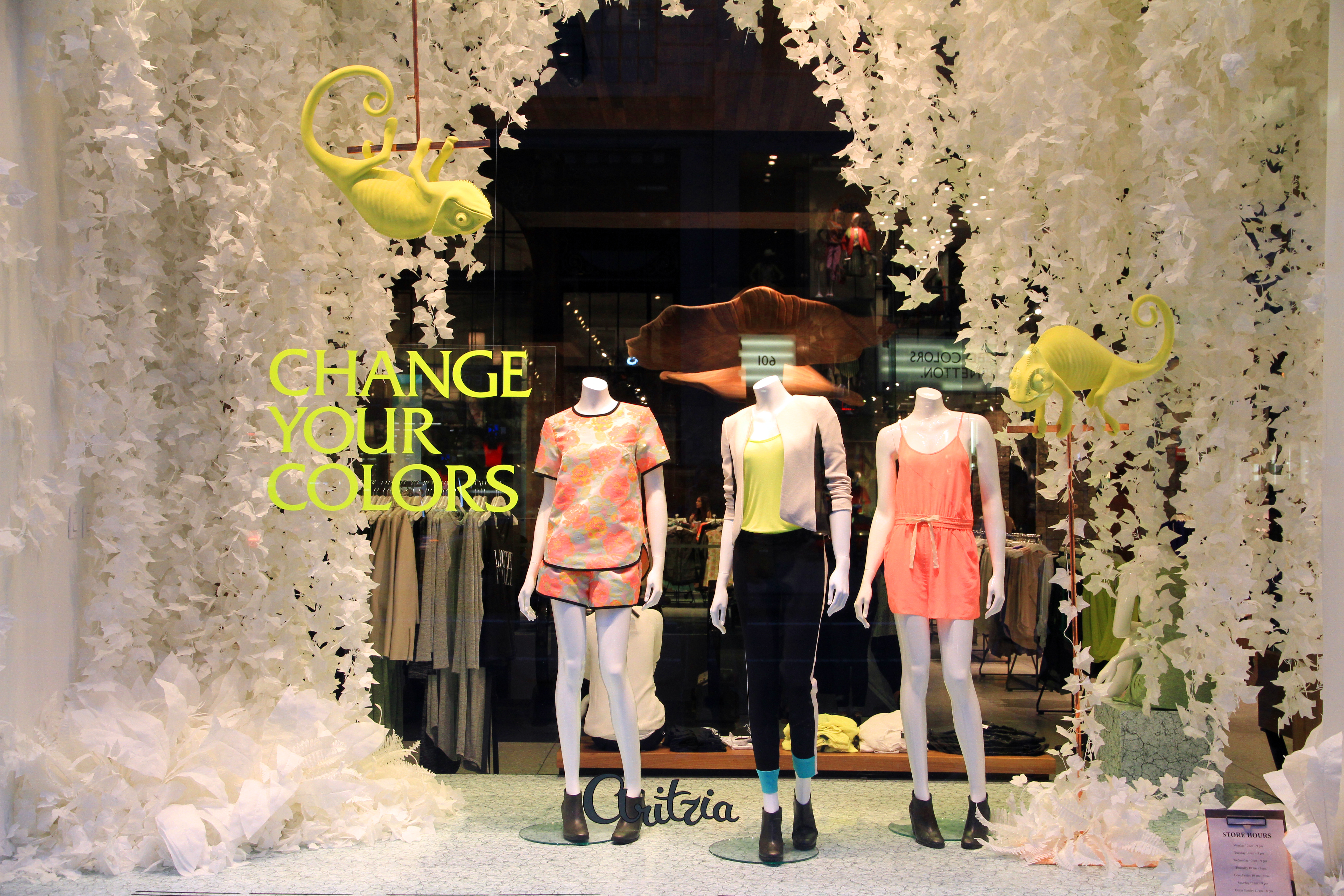 5th Avenue, NYC, 2013